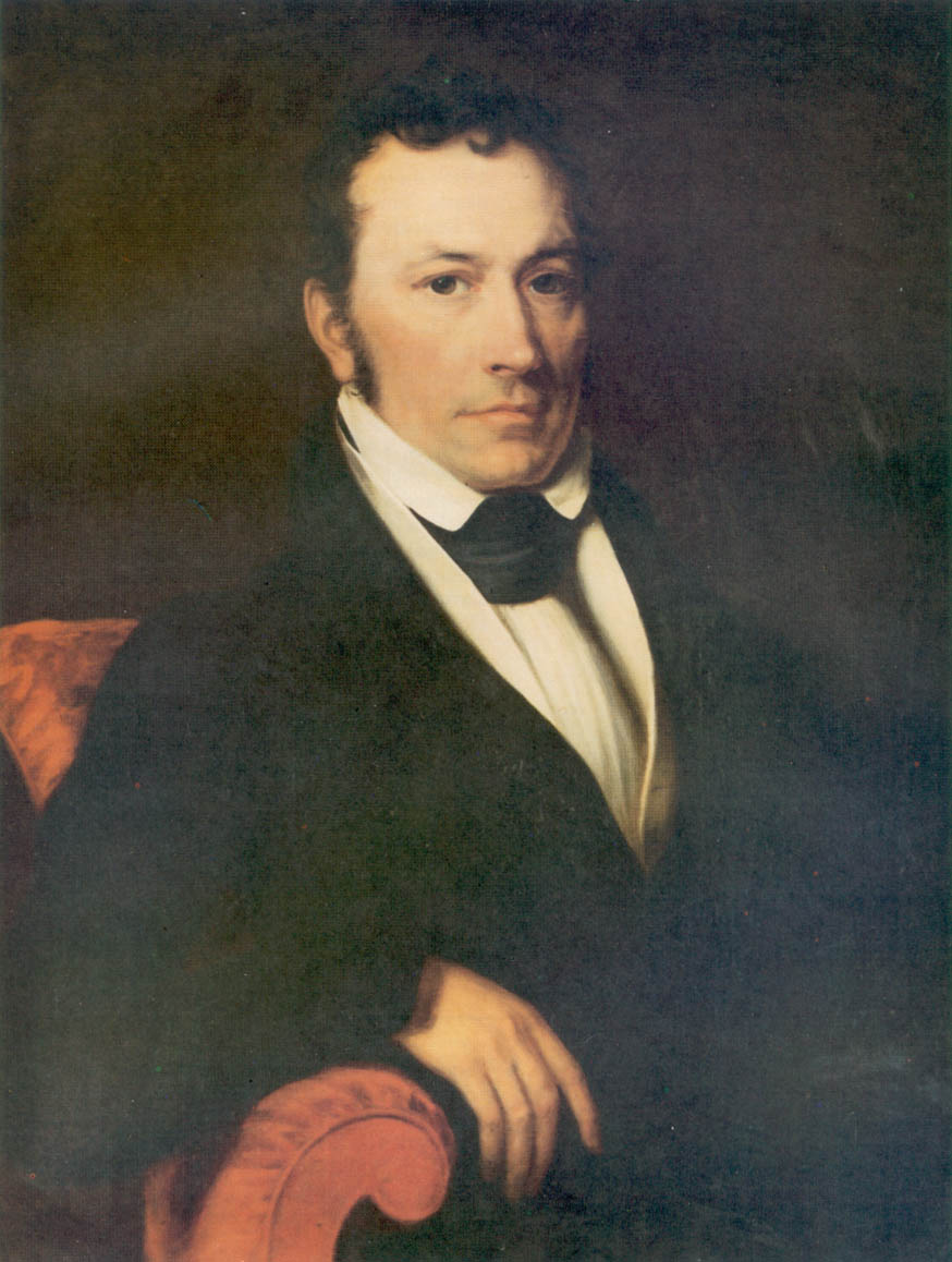 Joel Roberts Poinsett, U.S. Secretary of War, member of the U.S. House of Representatives, first American minister to Mexico, and namesake of the poinsettia flower.